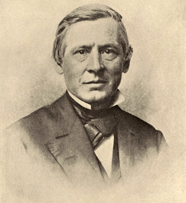 Photo of Asa Gray in 1867